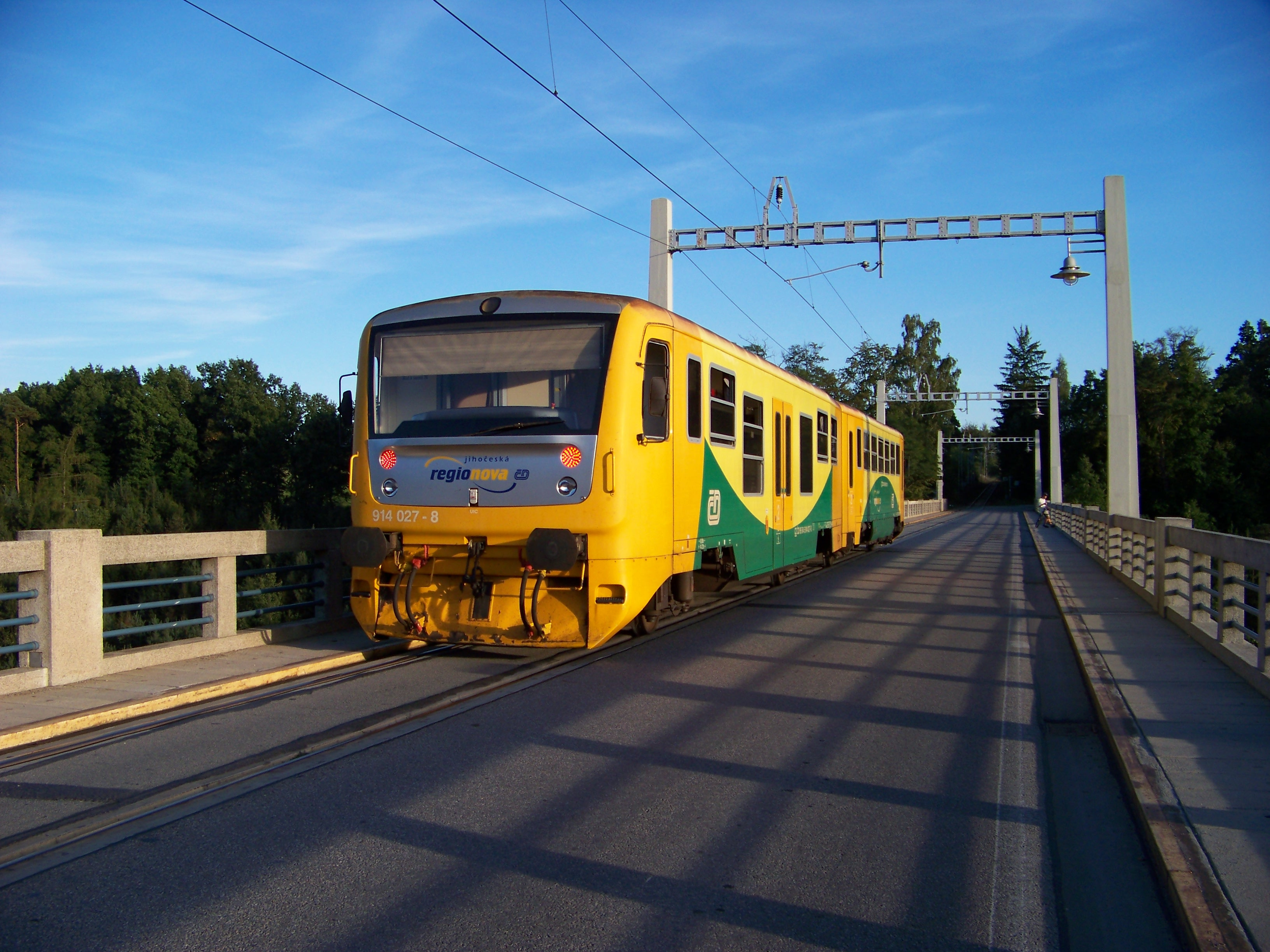 Sudoměřice u Bechyně-Bežerovice, Tábor District, South Bohemian Region, the Czech Republic. Duha (Rainbow) Bridge, Regionova train.